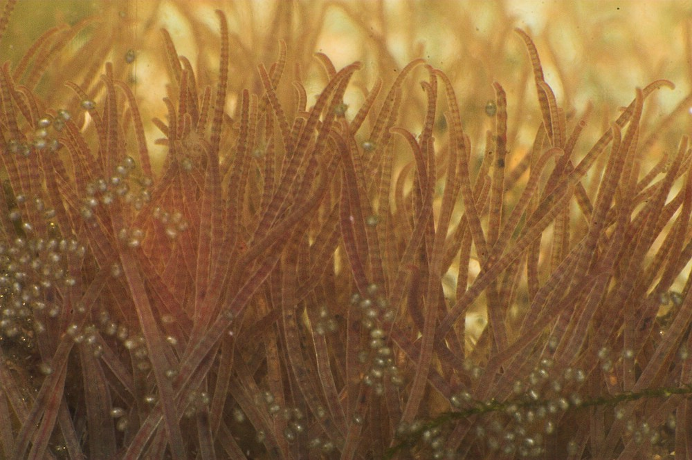 Tubifex in fishtank-ground